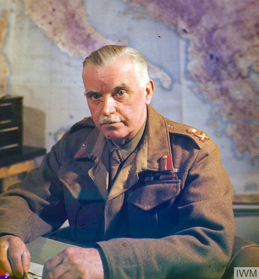 Lieutenant General W D Morgan, the Chief of Staff to the Supreme Allied Commander of the Mediterranean Forces, Field Marshal Alexander, at his desk in front of a map showing the Mediterranean area at AFHQ, Caserta, Italy.